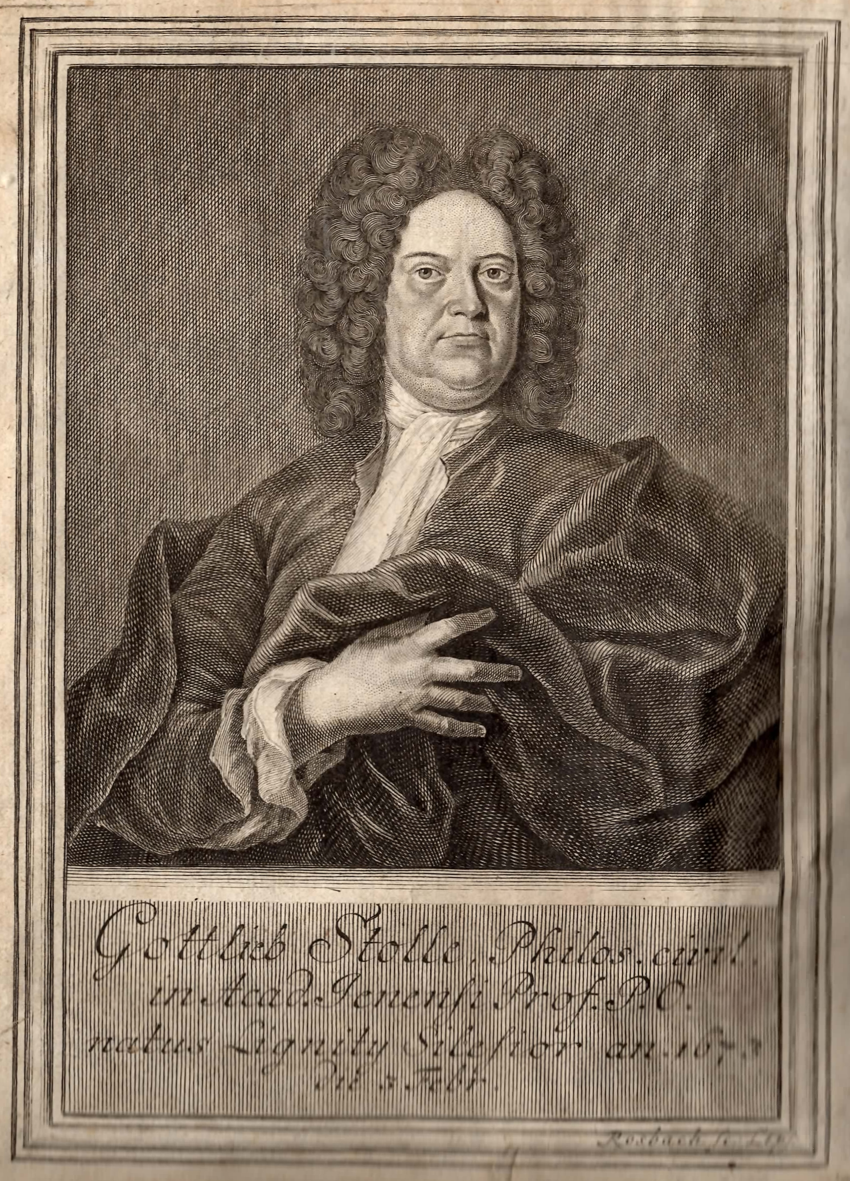 Portrait of Gottlieb Stolle (from my own bookshelf)